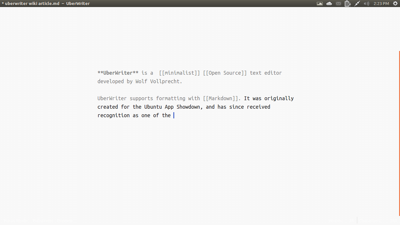 Focus mode in UberWriter